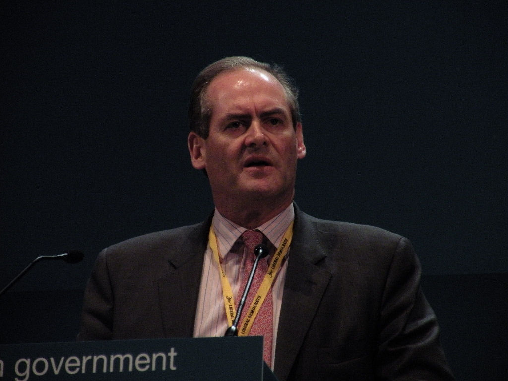 Jonathan Marks, Baron Marks of Henley-on-Thames addressing a Liberal Democrat conference in Sheffield City Hall